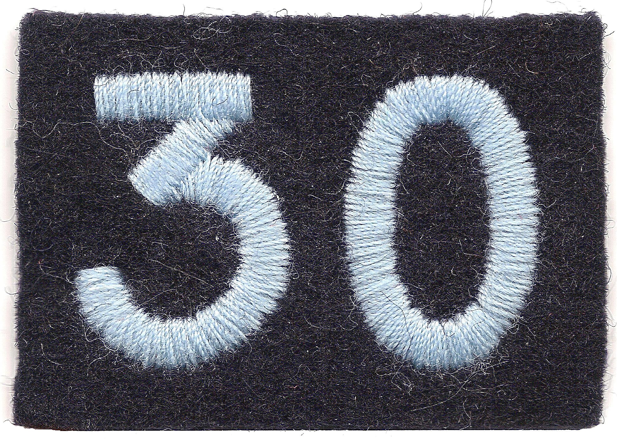 WW2 Shoulder Insignia of 30 Assault Unit. Worn in pairs, one each upper arm it consists of a cambridge blue '30' on a dark navy blue backing. No other unit insignia was worn due to the high security nature of the unit.